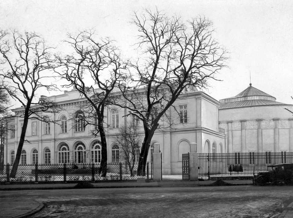 Buildings of Polish Parliament (Sejm and Senate) 1930